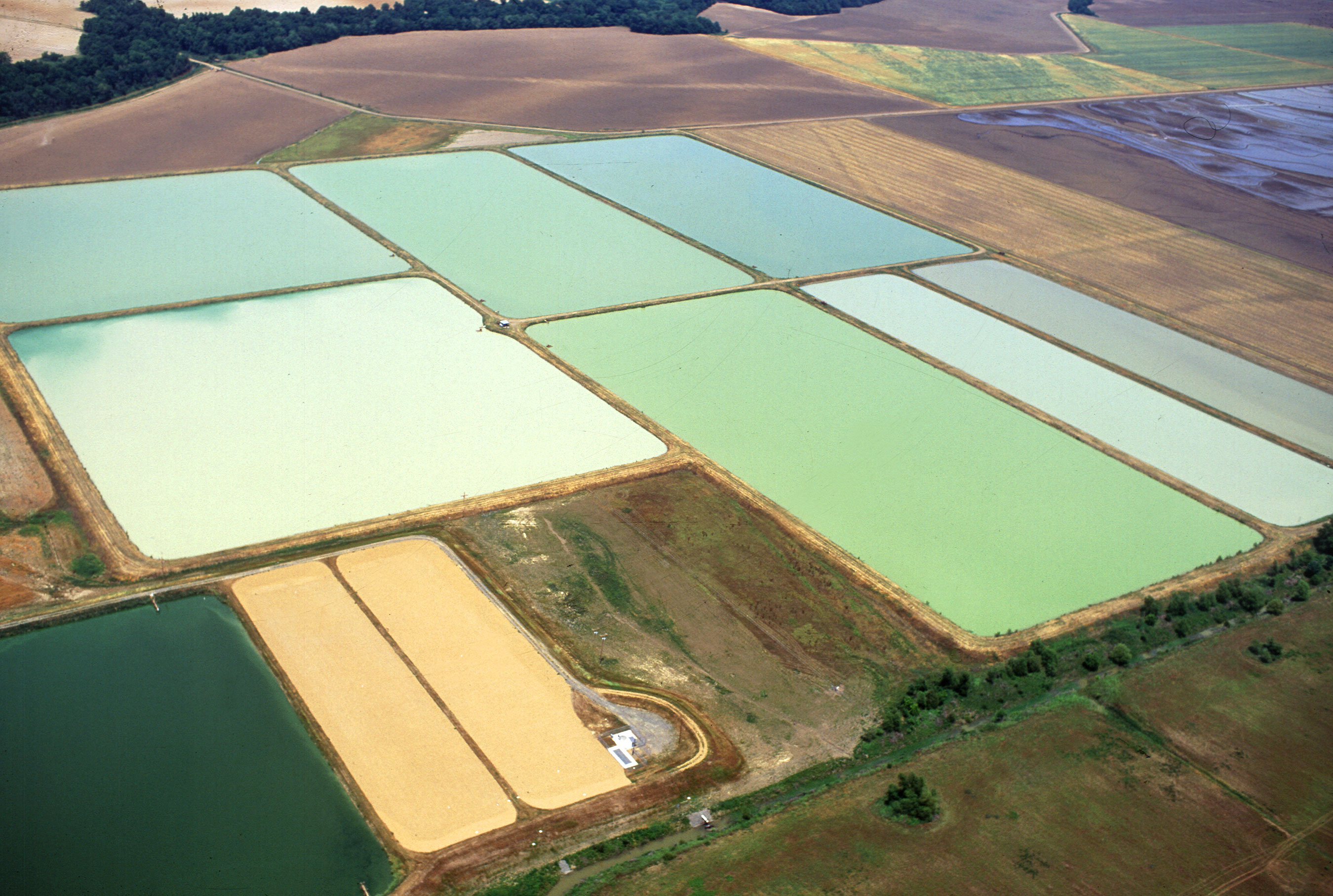 An aerial view of catfish ponds in Louisiana resembles an abstract painting. The color differences between ponds can be correlated to the number and type of algae present within the ponds. USDA photo by Scott Bauer.